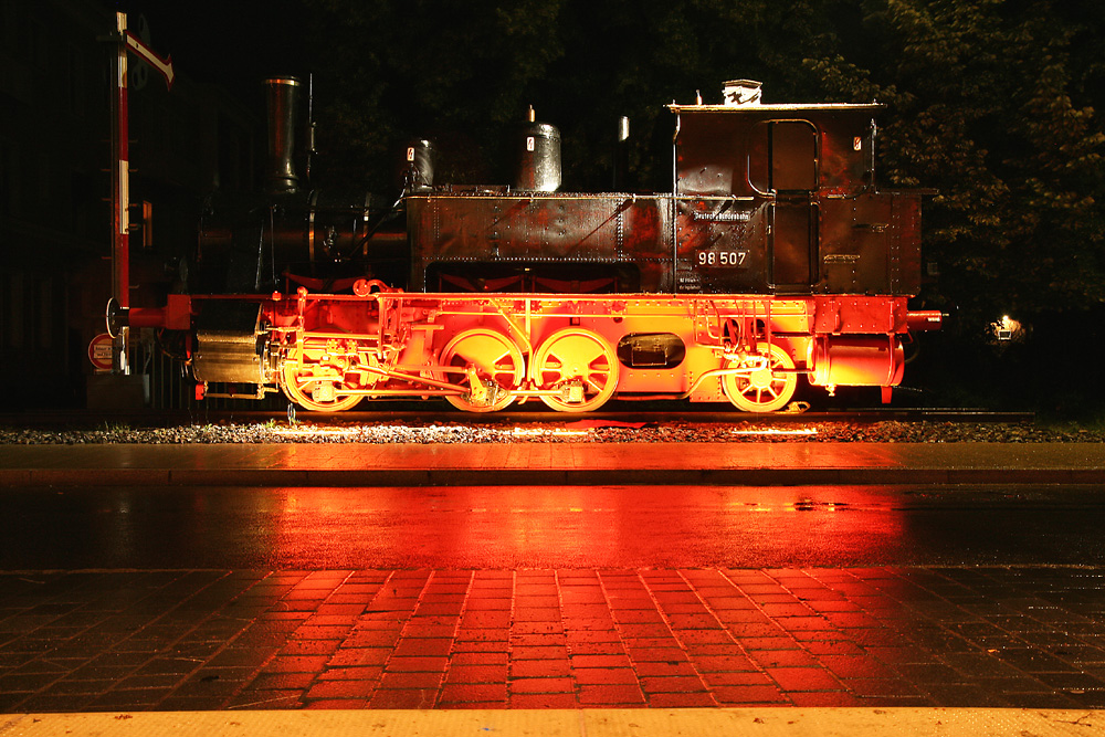 Steam locomotive 98 507, today a memorial in front of the main railway station of Ingolstadt